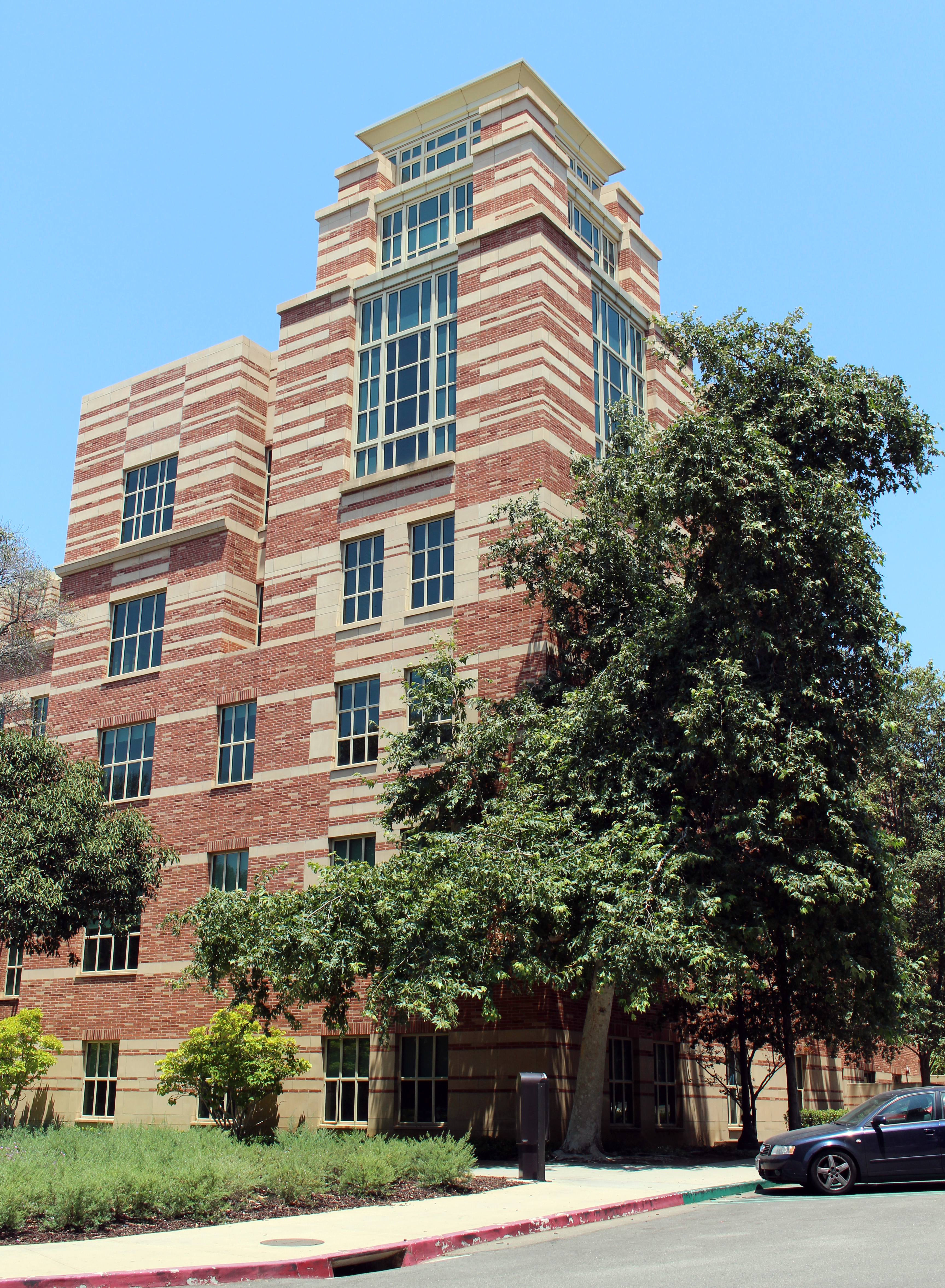 The five-story tower at the Hugh and Hazel Darling Law Library of the UCLA School of Law in Los Angeles, California. Photographed by user Coolcaesar on June 27, 2016.